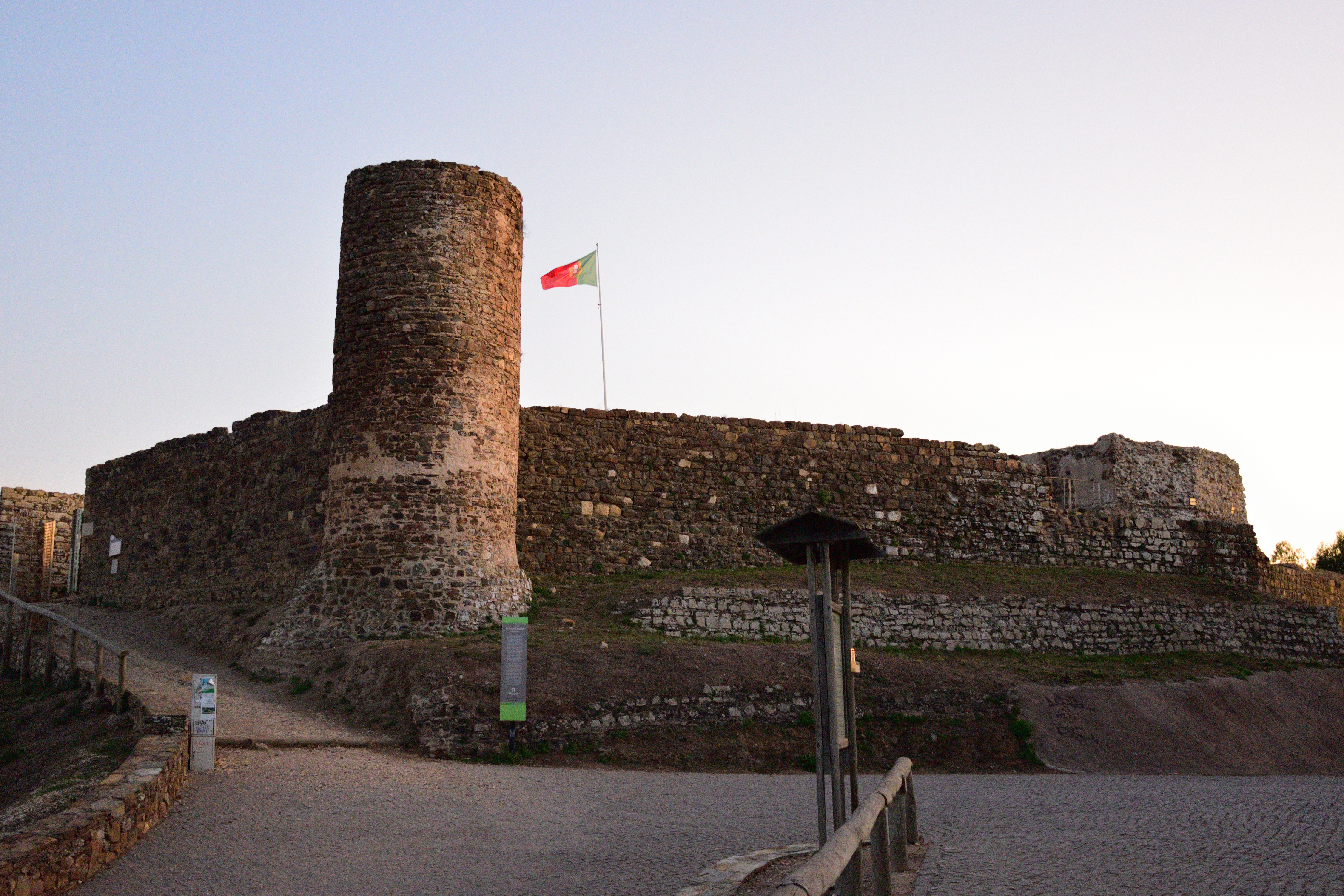 Aljezur's Castle, Algarve, Southern Portugal.